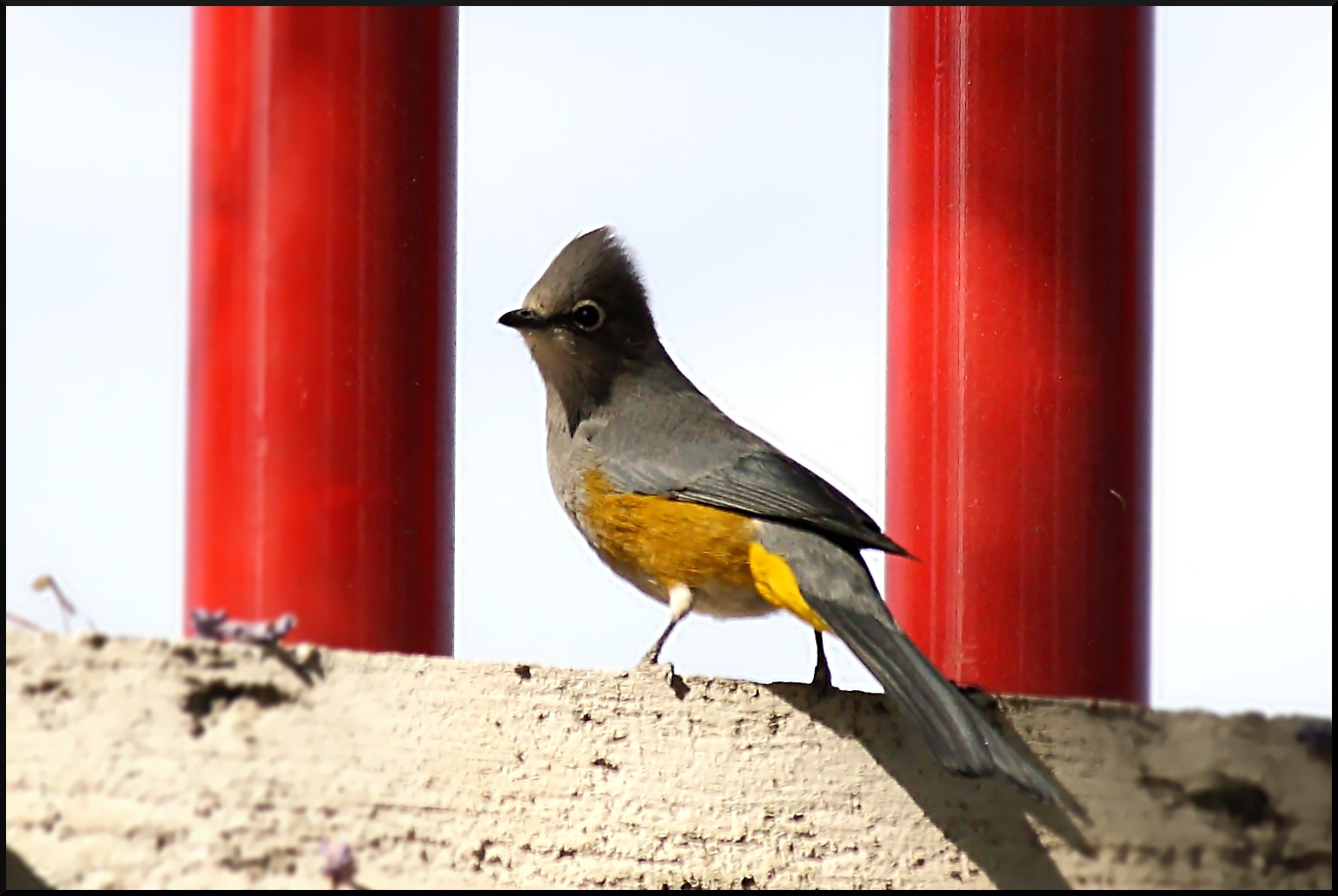 This is a grey silky-flycatcher photographed in a park in guadalajara, jalisco mexico